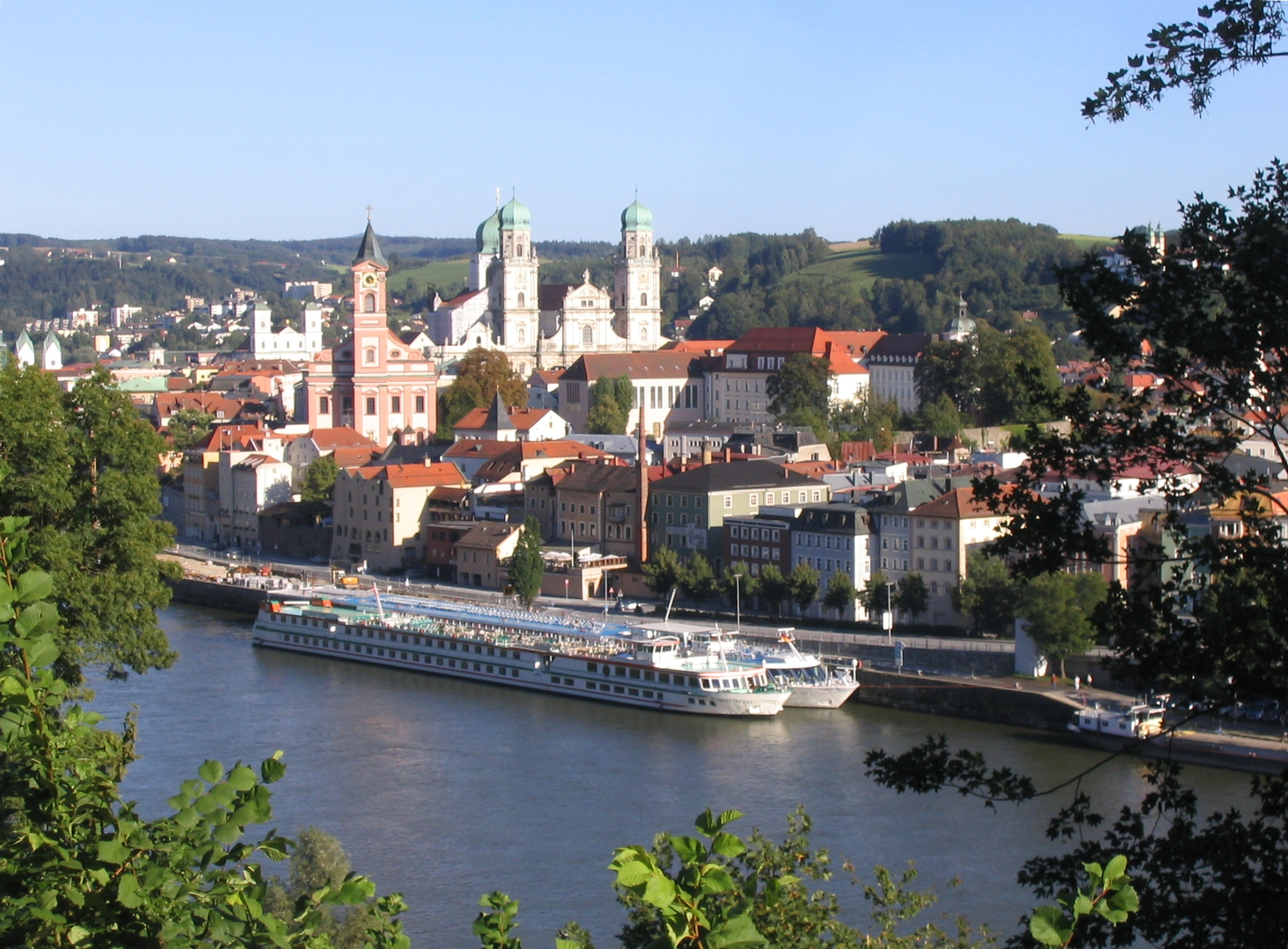 Passau, Old Town and Danube